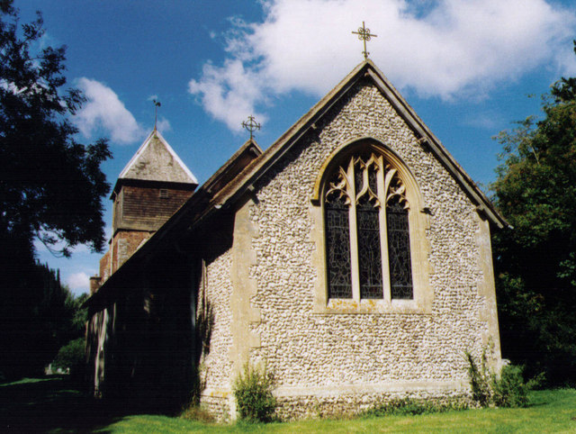 St Mary, Greywell Grade 2* listed building erected in the 12th century.